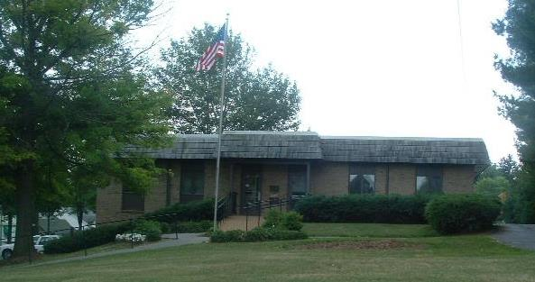 View of the Town Offices on Locust Street in Stephens City